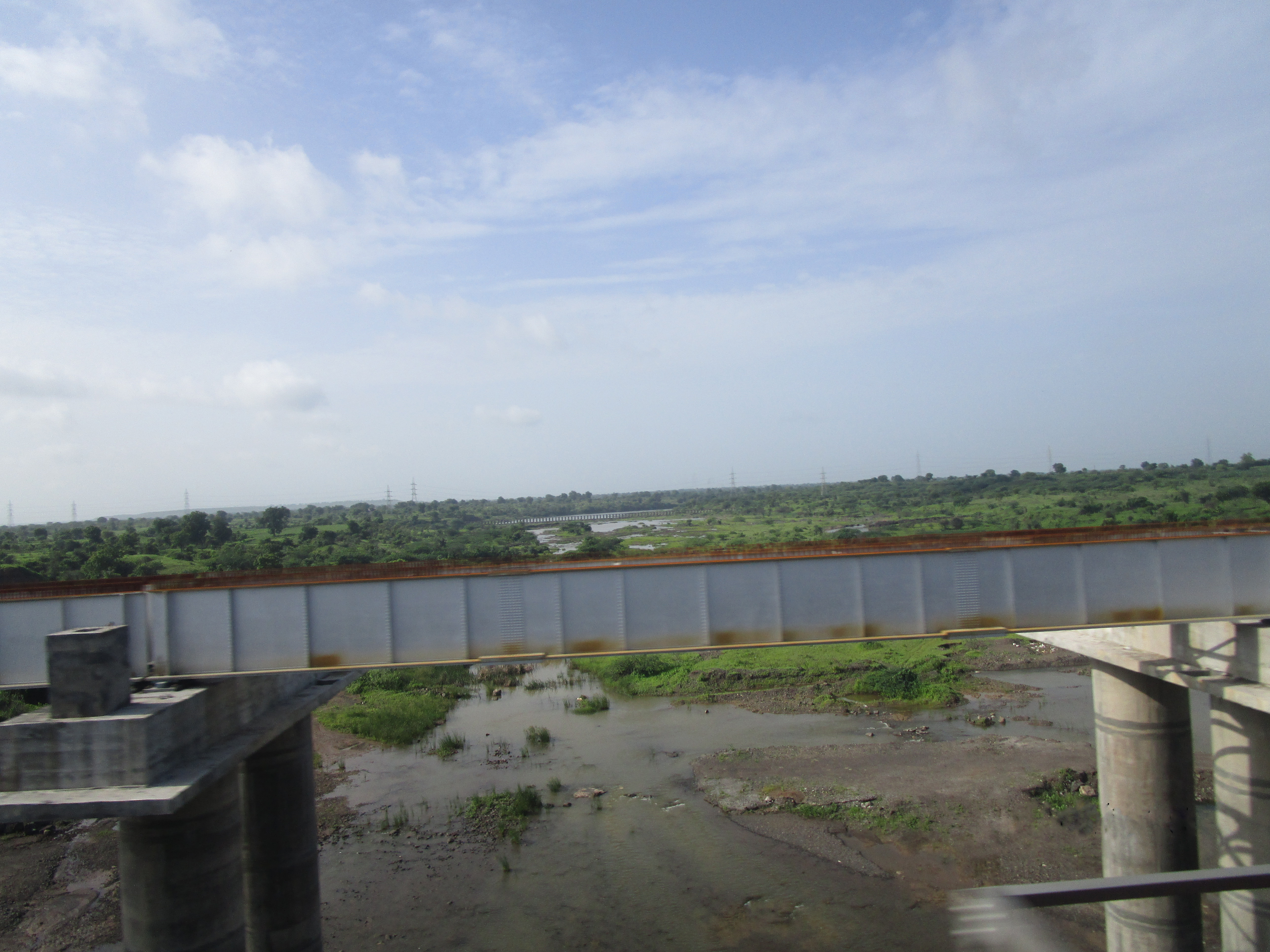 Waghur river and Waghur dam